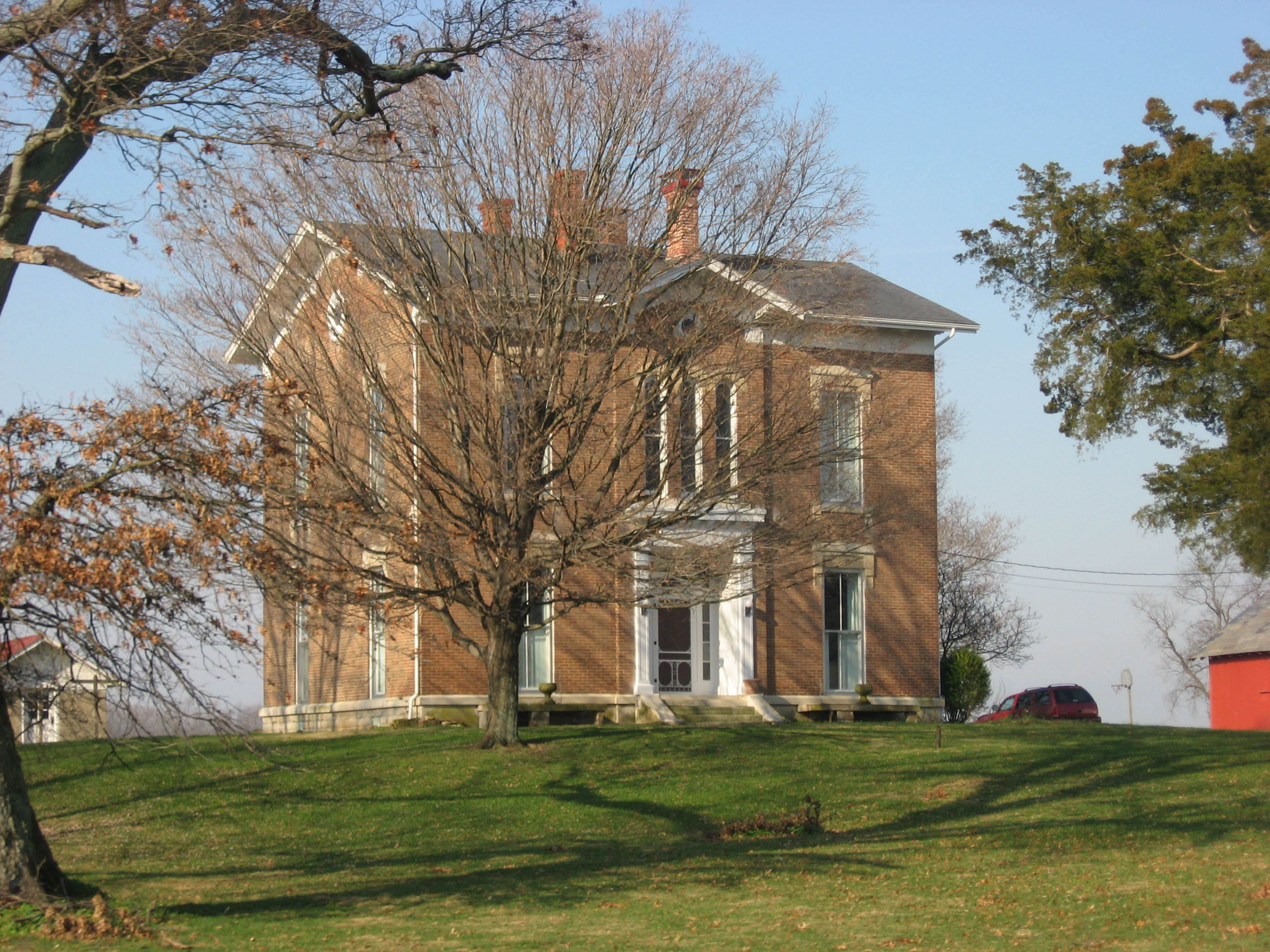 Southern side and front of the Newsom-Marr Farmhouse, located at 4950 S150E south of Columbus in Sand Creek Township, Bartholomew County, Indiana, United States. Built in 1864, it is listed on the National Register of Historic Places.